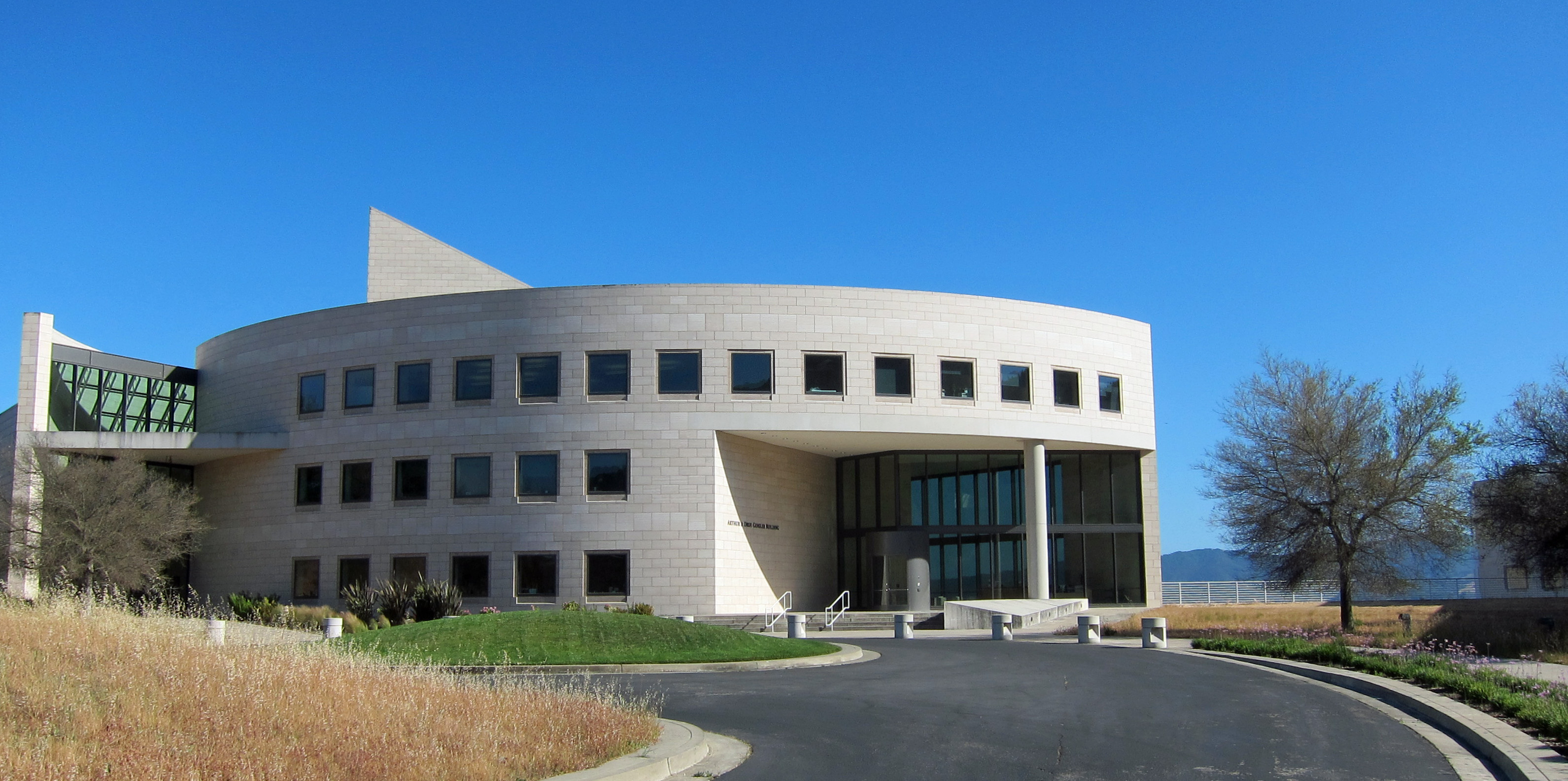 This is the main entrance of the Administration Building of the Buck Institute for Research on Aging, in Novato, California. The campus was designed by I. M. Pei.